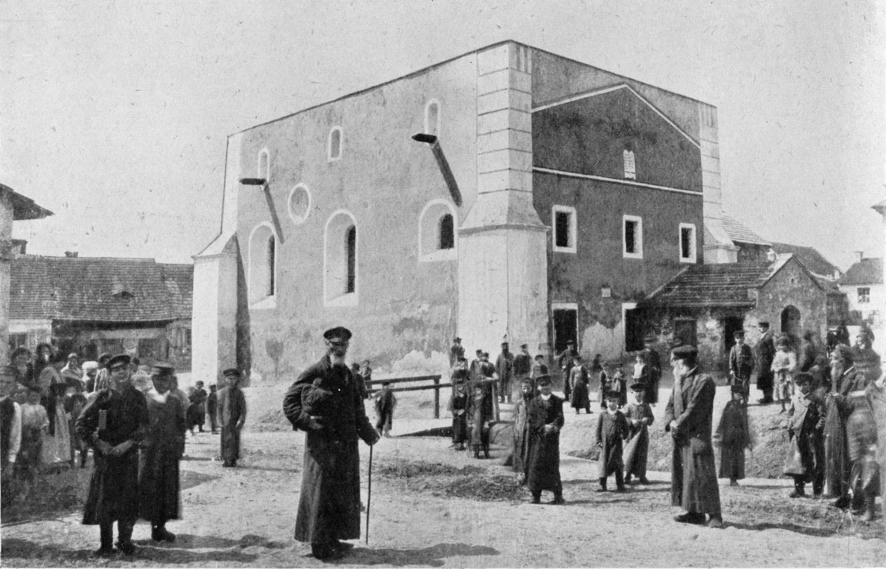 City Pińczów (Poland), the synagogue (west front).